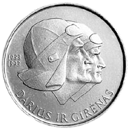 10 litas coin issued to commemorate the 60th Anniversary of the flight across the Atlantic of Steponas Darius and Stasys Girenas Alloy of copper and nickel (Cu 75%, Ni 25%) Diameter 28.70 mm Weight 13.15 g The words on the edge of the coin: SLOVE ATLANTO NUGALETOJAMS (GLORY TO THE CONQUERORS OF ATLANTIC) The designer of the coin is Petras Garska Mintage 10,000 pcs Issued 1993 Distribution terminated 1998 Distributed 4,500 pcs The coin was minted at the state enterprise Lithuanian Mint.